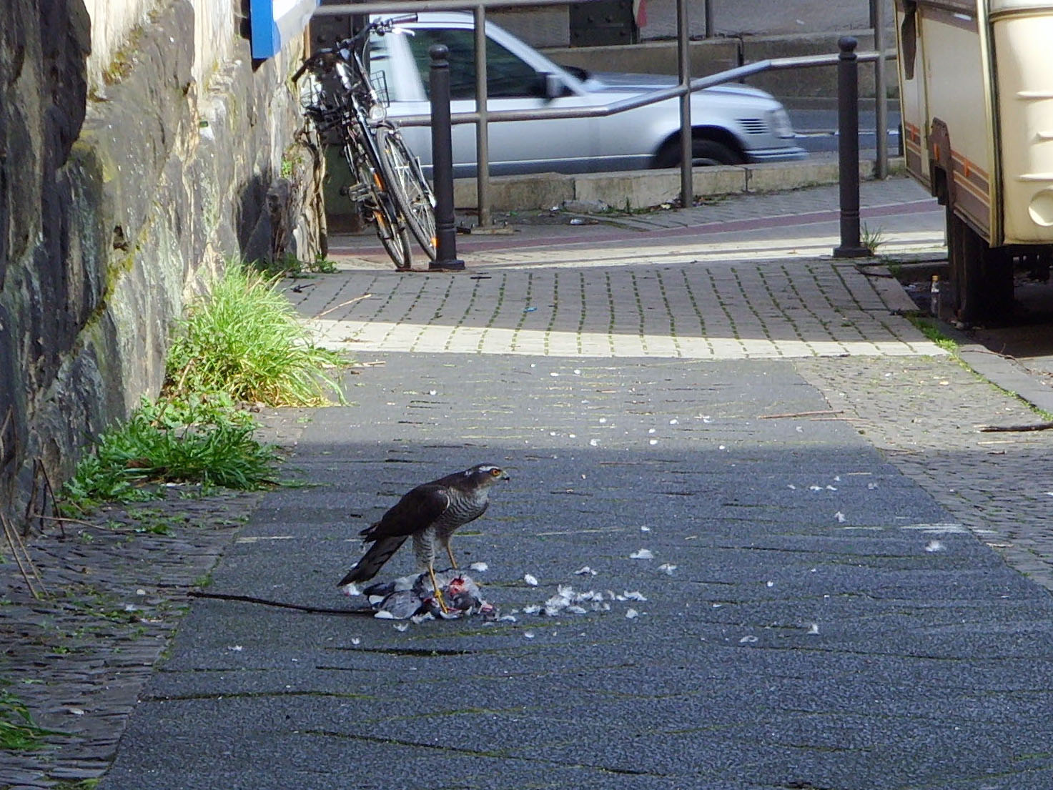 A eurasian sparrowhawk eating a city pigeon in the town center of Bochum, Germany. Source: own work Date: March 08, 2008, Signalstr. / Dorstener Str., Bochum, Germany Licence: GFDL, cc-by 3.0 ---- Kulturfolger